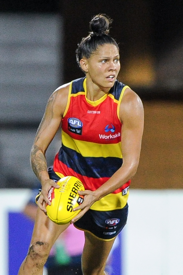 Stevie-Lee Thompson in the AFL Women's preseason match between the Adelaide Football Club and Fremantle Football Club on 20 January 2018 at TIO Stadium.